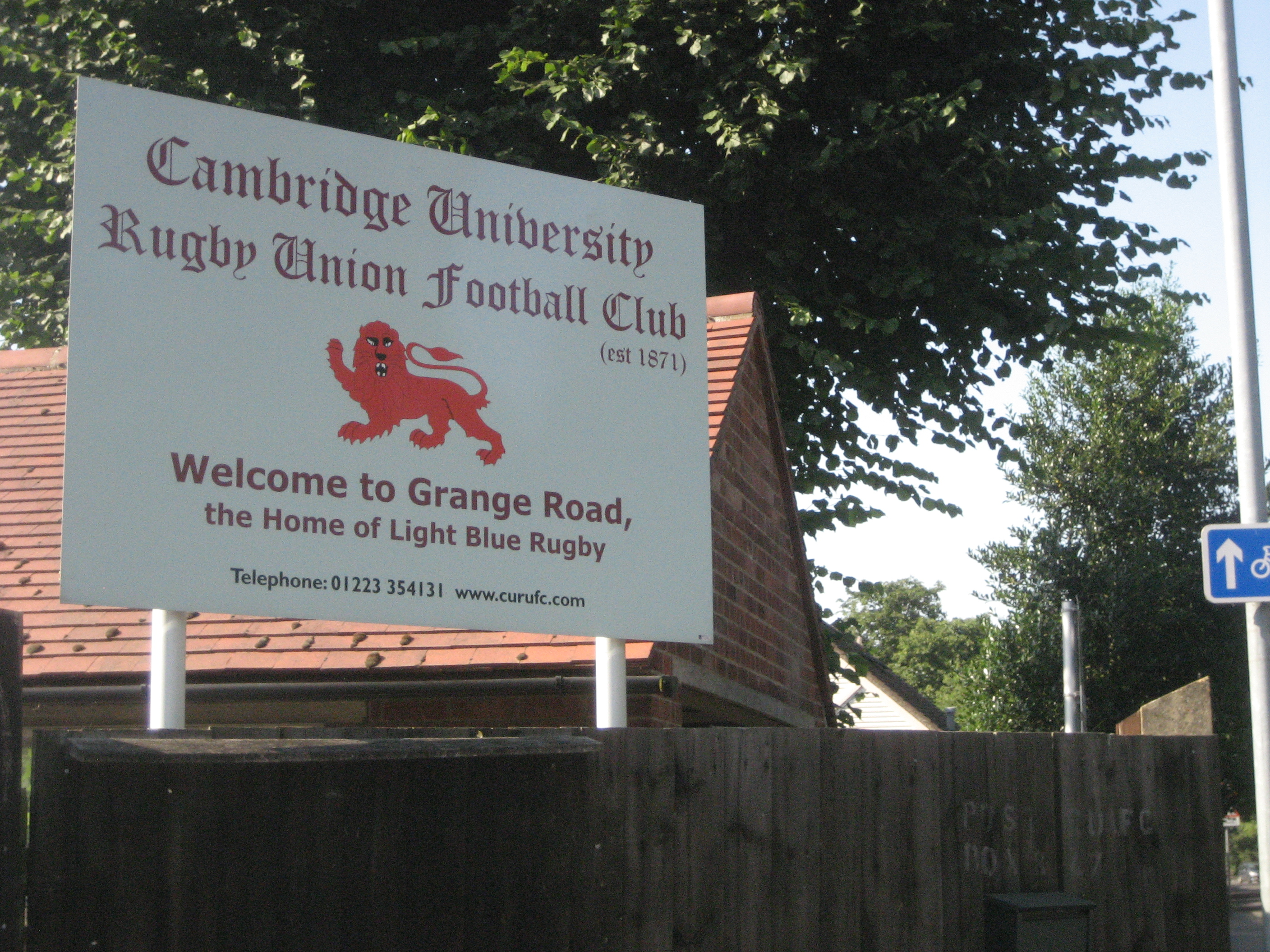 Cambridge University Rugby Union Football Club, Grange Road, Cambridge, England (UK)